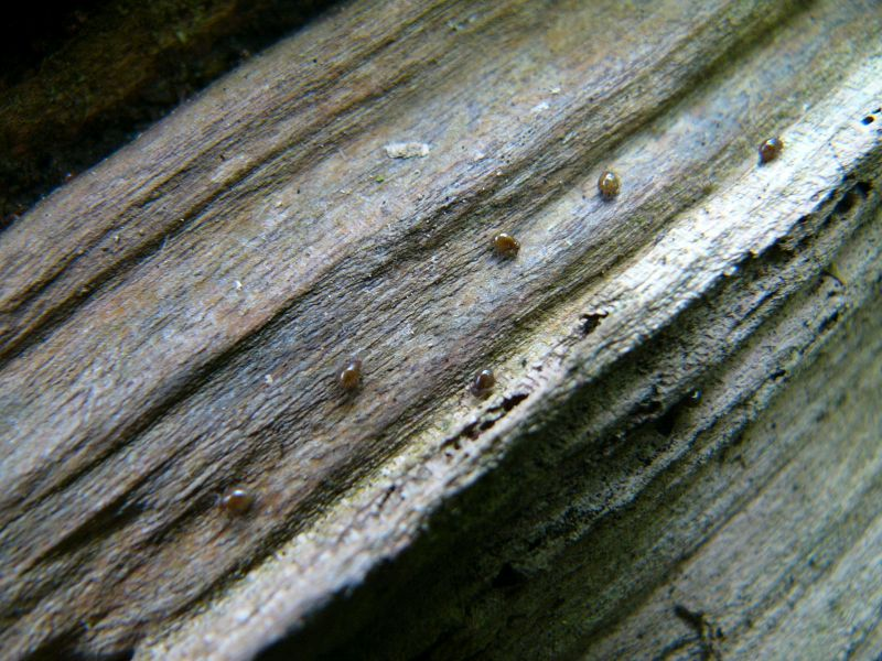 A flock of Allacma fusca (Hexapoda: Collembola: Sminthuridae) grazing algae on a dead stump. Deciduous forest near Löbau, Saxony, Germany.